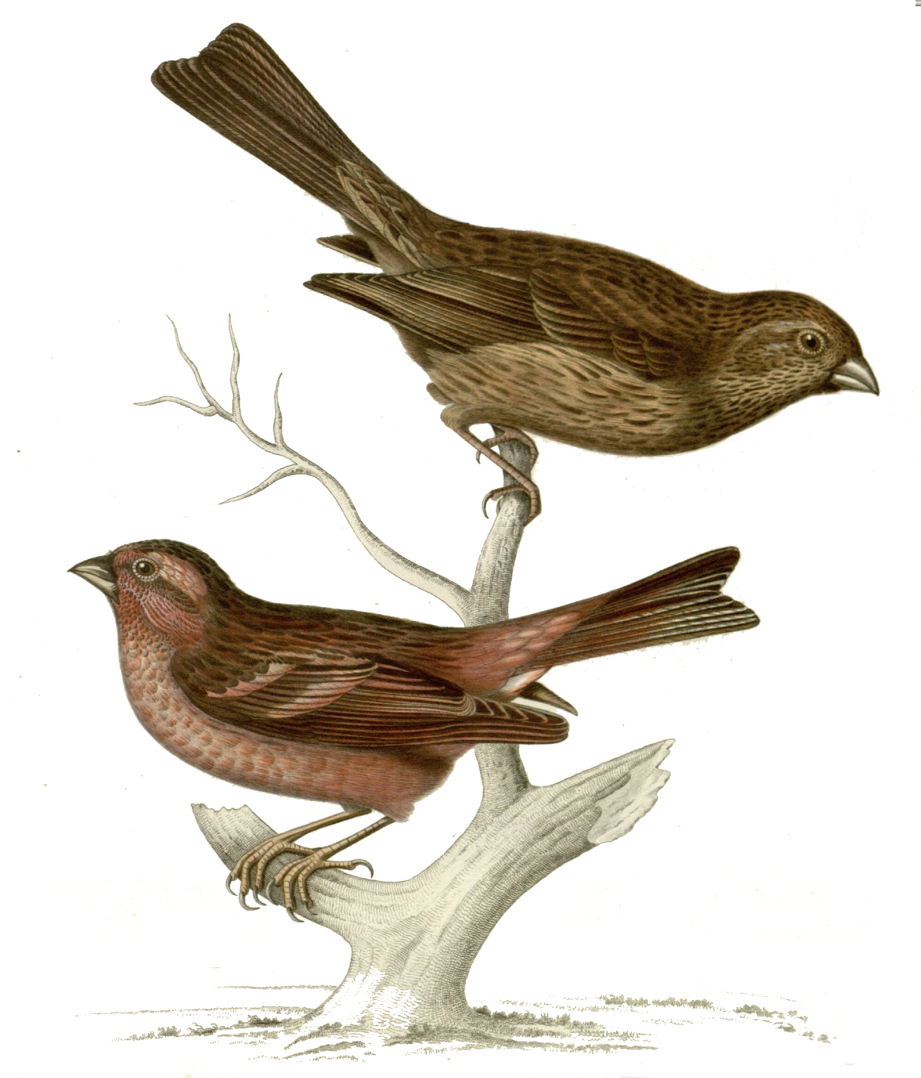 Carpodacus pulcherrimus